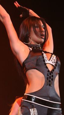 Nicole Scherzinger at the Tacoma Dome